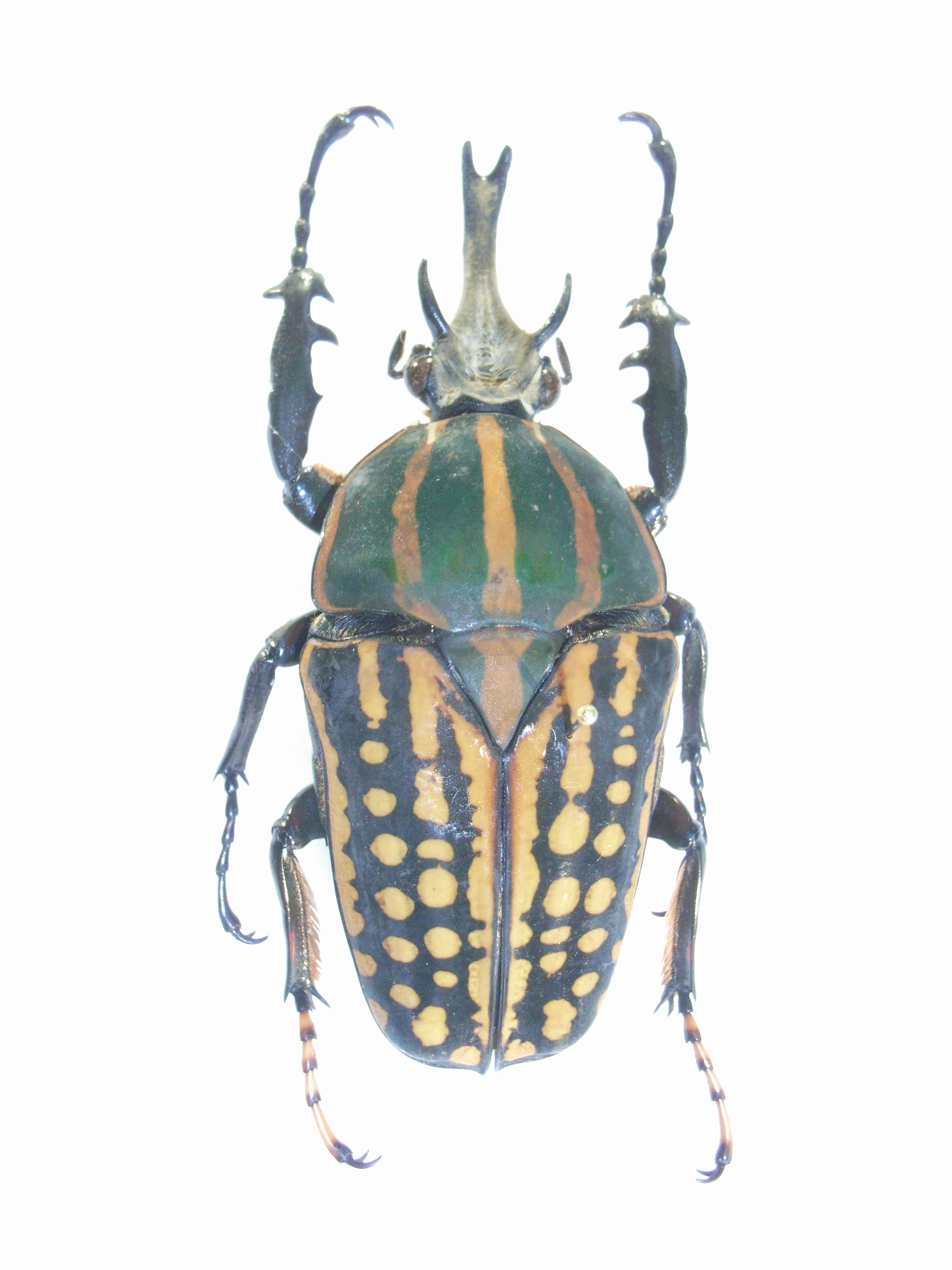 Chelorrhina savagei Male Ex coll. Felix Stumpe